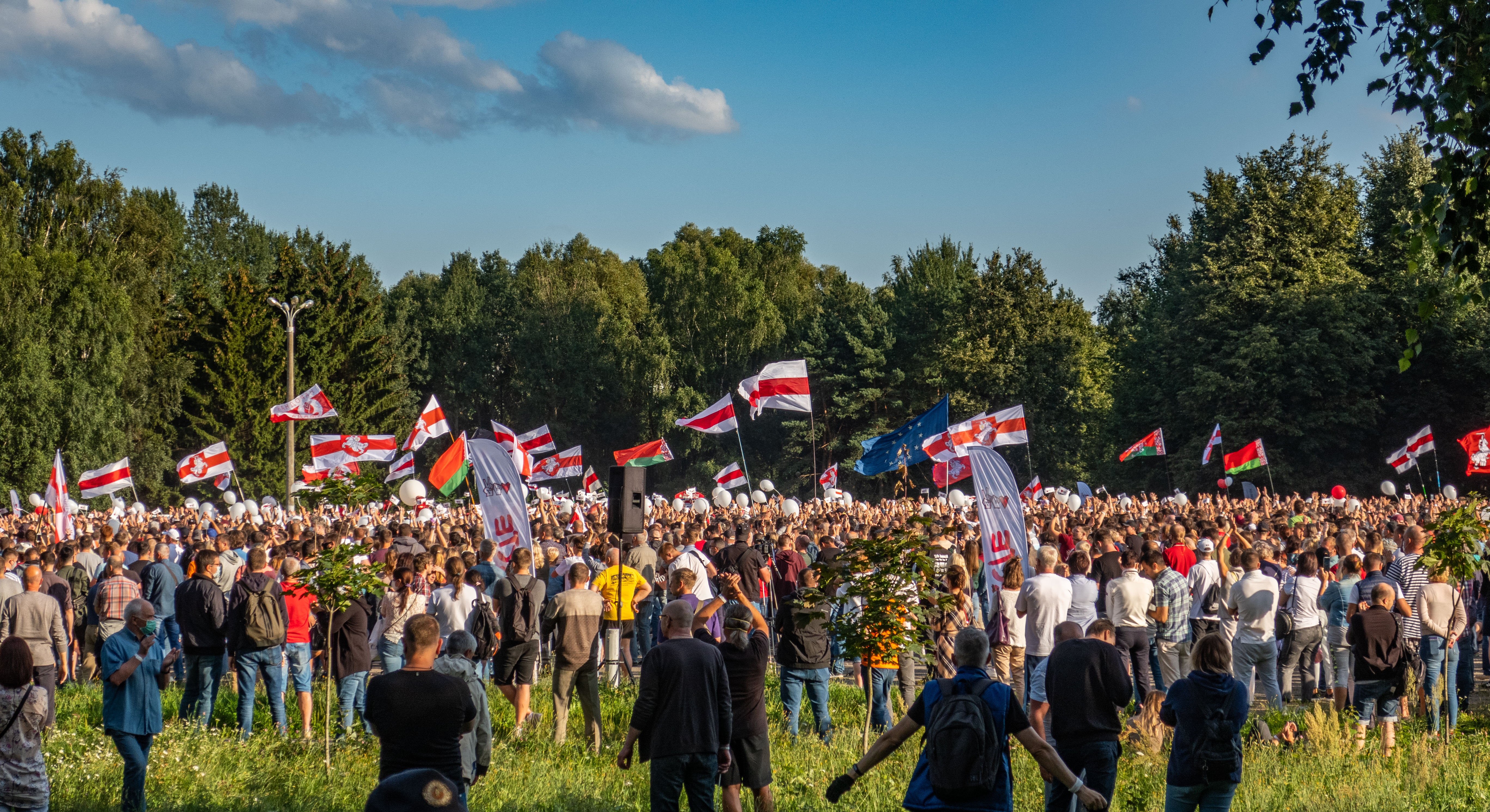 Rally in support of Sviatlana Tsikhanoŭskaya and the joint campaign headquarters. 30 July 2020, Minsk, Belarus